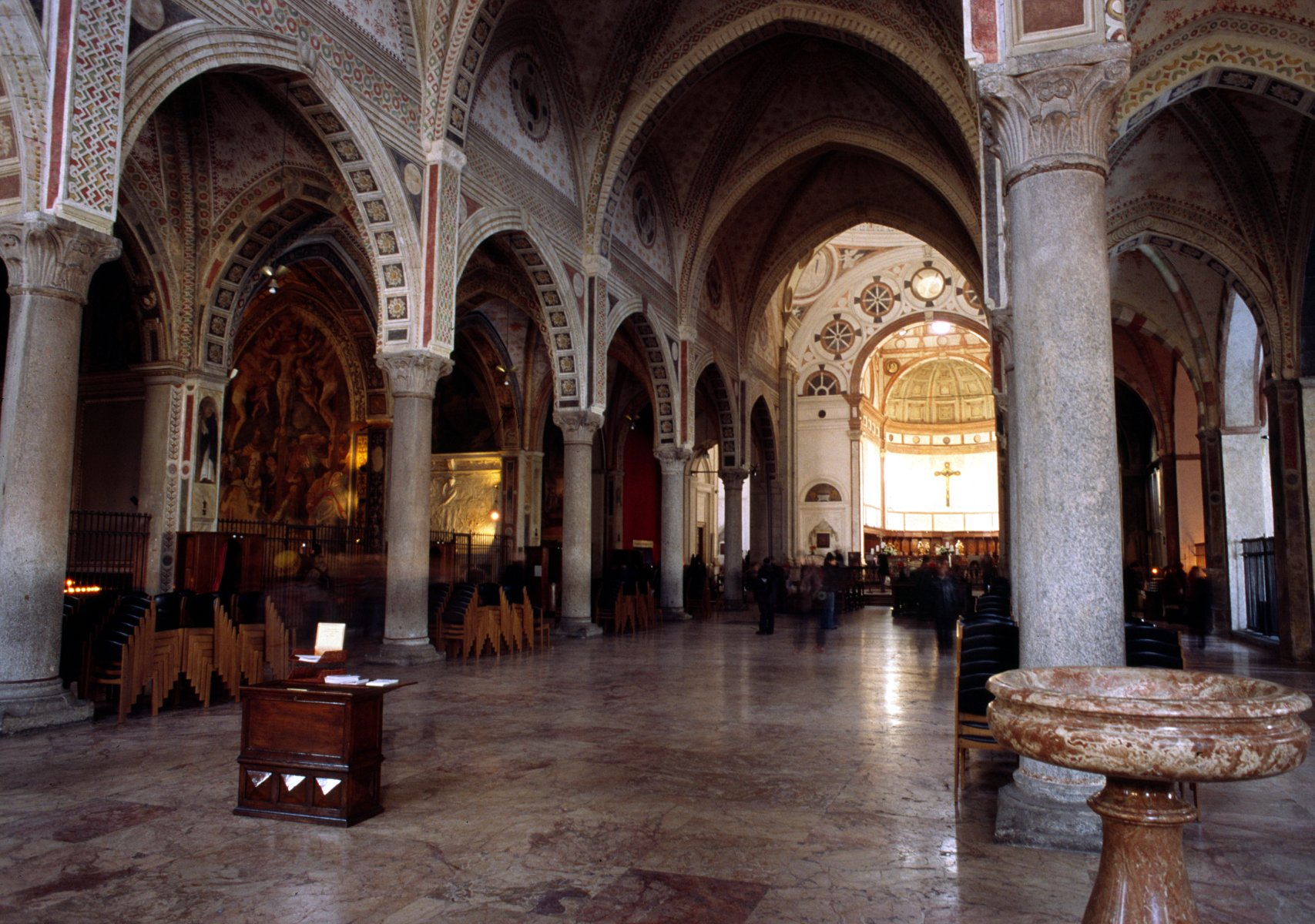 Nave of Santa Maria delle Grazie church, Milan 30.12.2005. Photo by Mikko Virtaperko.